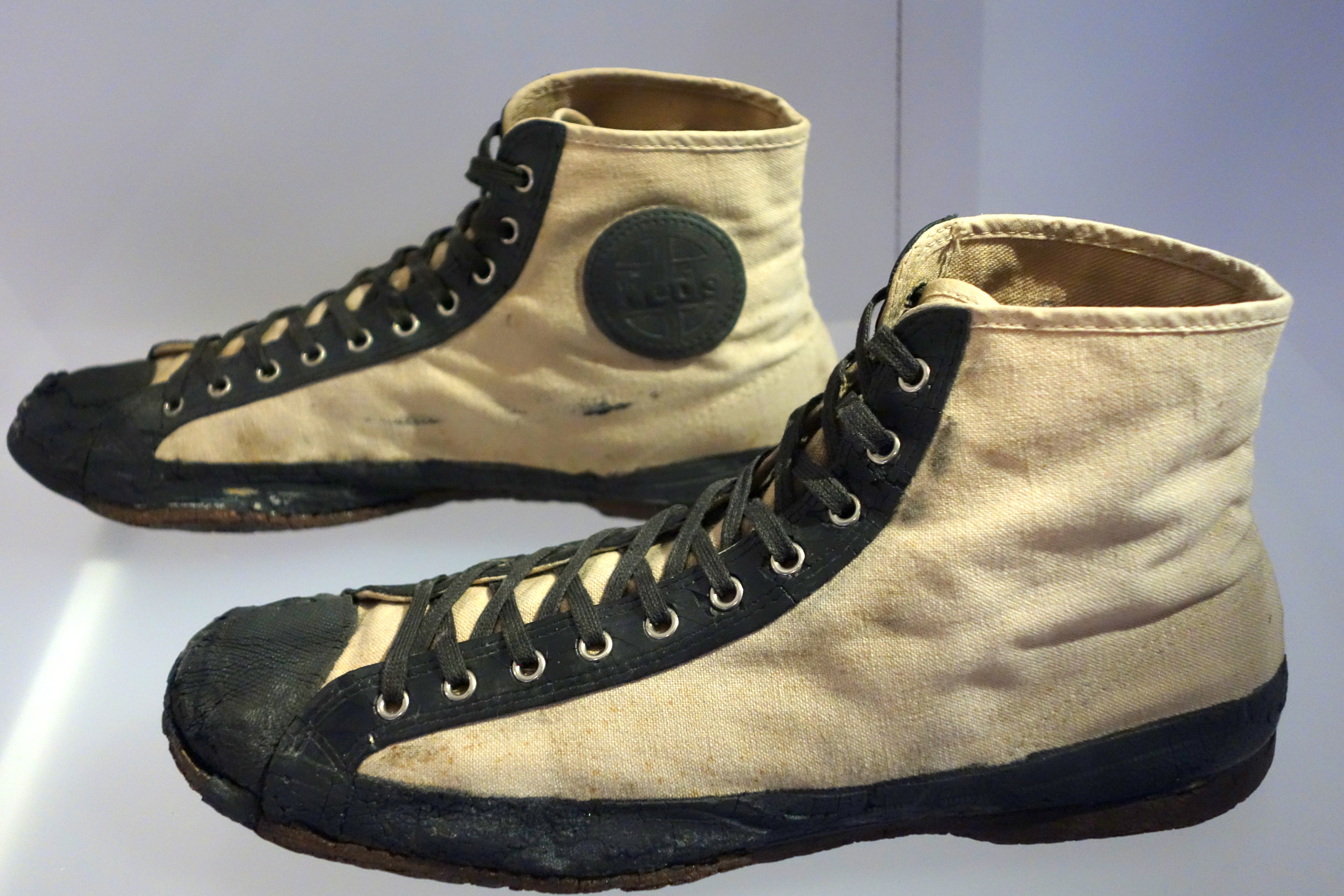 Exhibit in the Bata Shoe Museum, Toronto, Ontario, Canada. This item is old enough so that its design is in the public domain. The museum permitted photography without restriction.